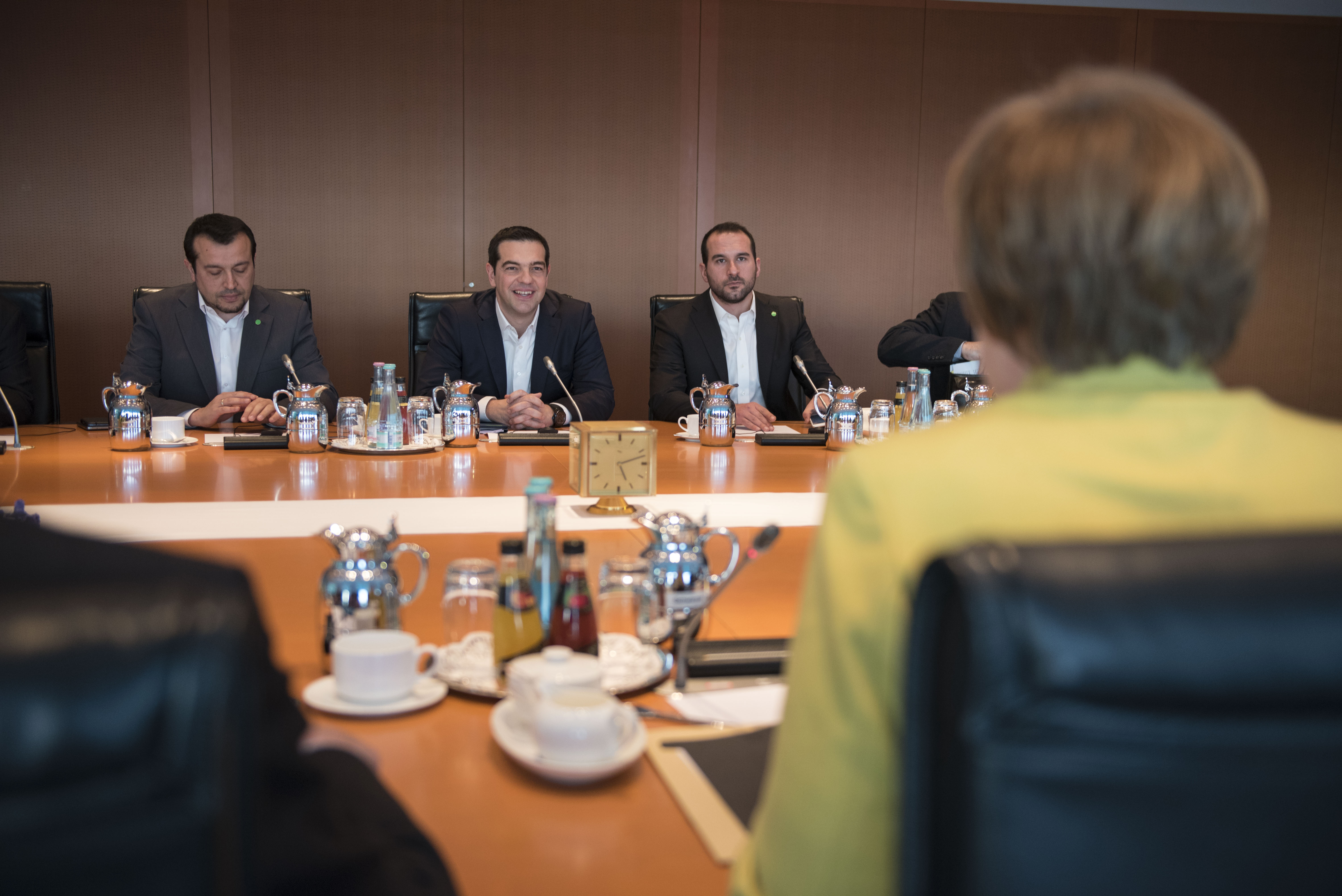 Aléxis Tsípras attending a delegation meeting.